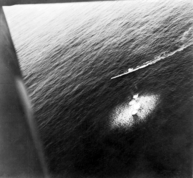 SCILLY ISLES. 1940-07-01. A SUNDERLAND FLOWN BY FLIGHT LIEUTENANT W. N. GIBSON OF NO. 10 SQUADRON, RAAF, MAKES A SECOND ATTACK ON AN ENEMY U26, SOUTHWEST OF THE SCILLY ISLES. THE U-BOAT SCUTTLED ITSELF SOON AFTERWARDS